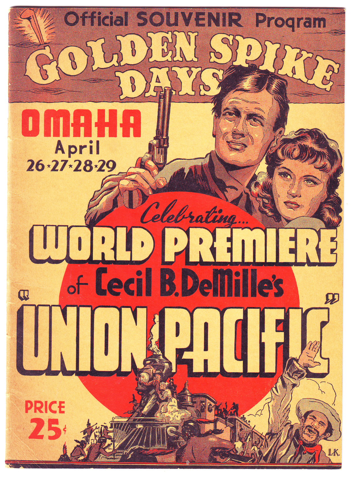 Cover of the Official Souvenir Program for Golden Spike Days celebrating the world premiere of the Cecil B. DeMille motion picture Union Pacific at Omaha, NE, April 26-29, 1939.